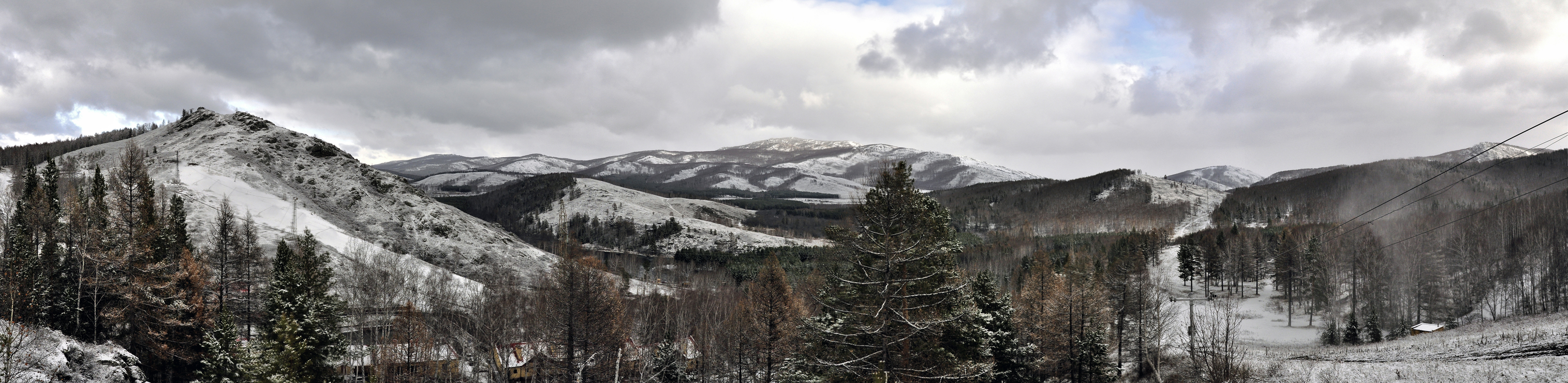 View of Abzelilovsky District, Bashkortostan.